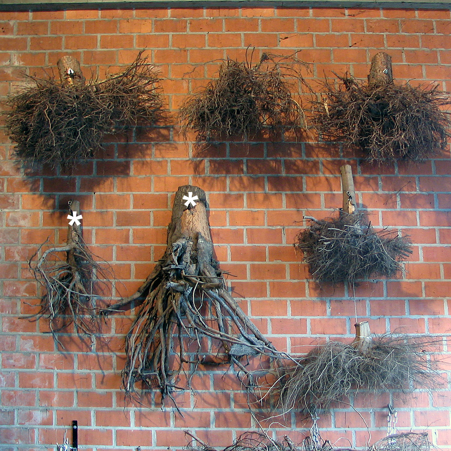 Root of transplanted vs non transplanted (asterix) nursery stock, Lappen nursery